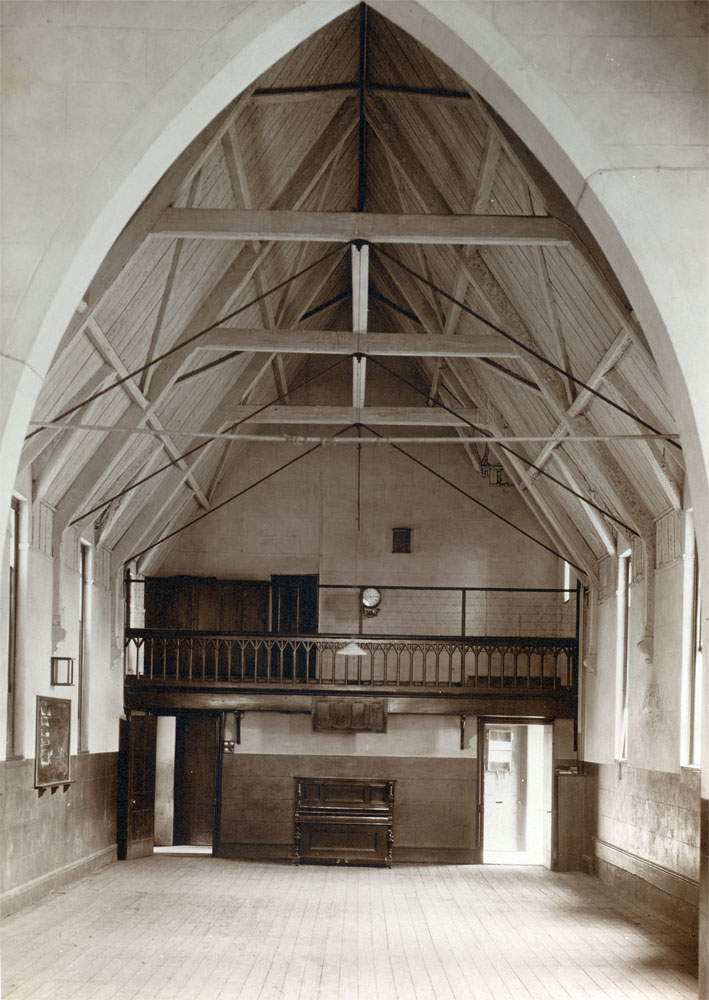 Ipswich Grammar School Great Hall, Ipswich, 1929